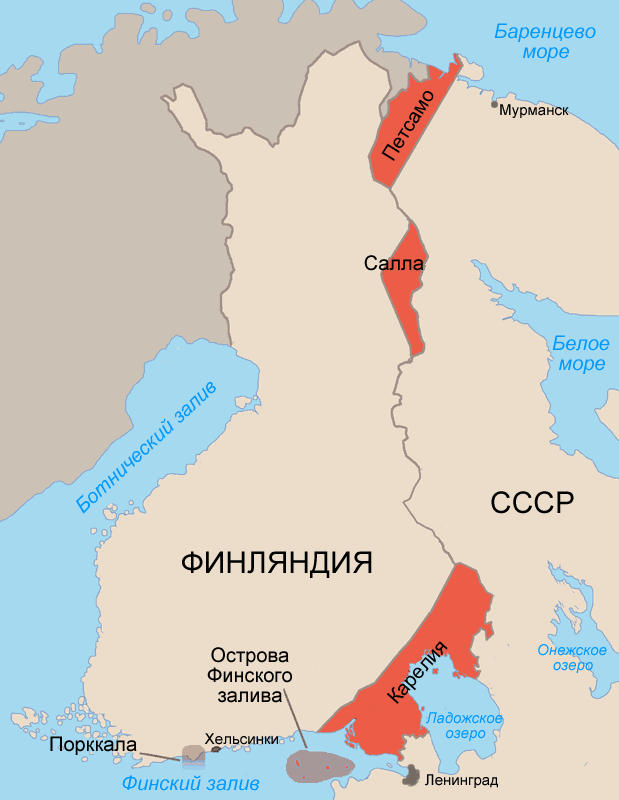 Map of Finnish areas ceded to the Soviet Union in 1944, after the Continuation War.